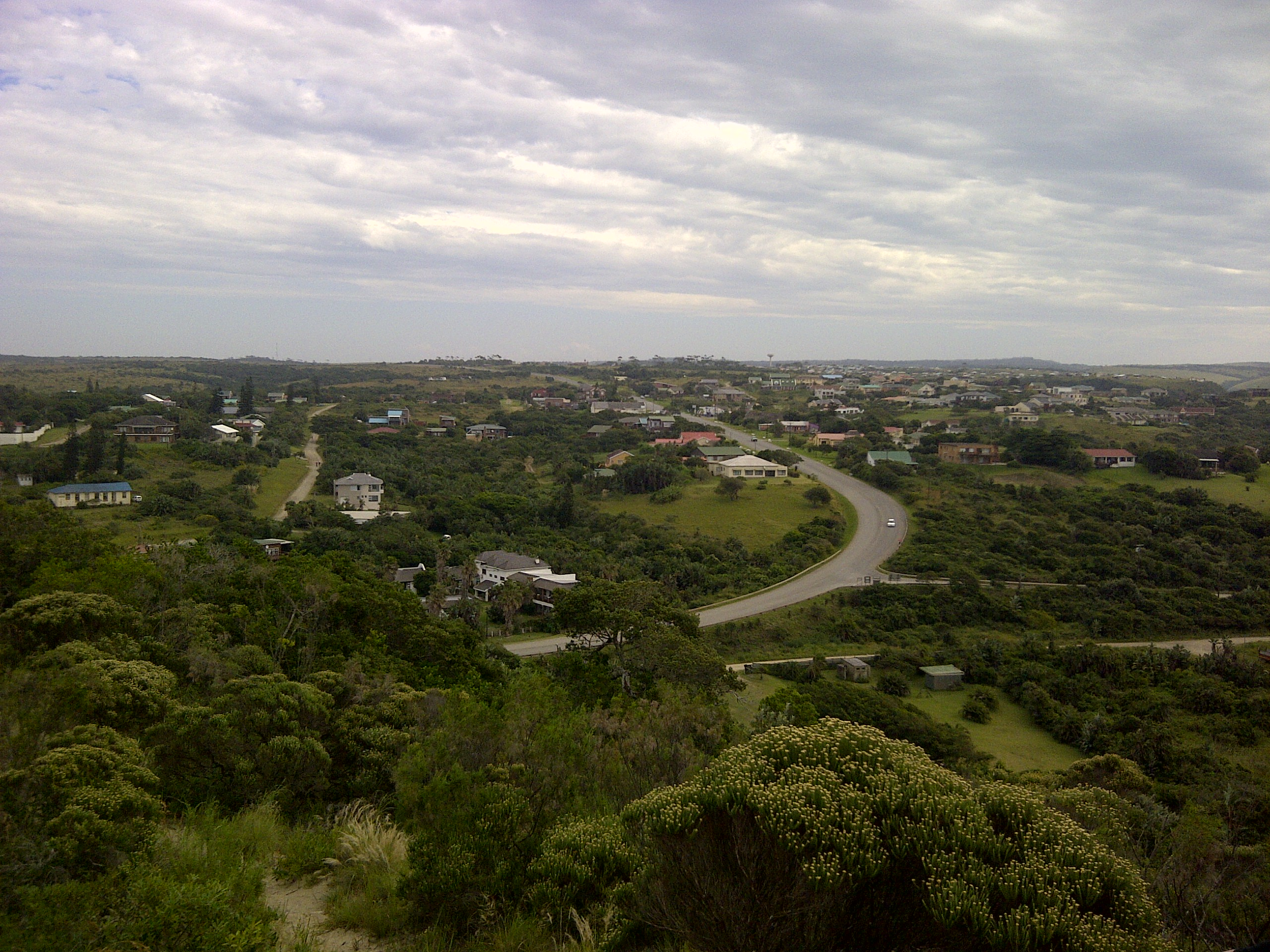 A view of Kei Mouth from the hill, showing the tarred main road coming into the village.